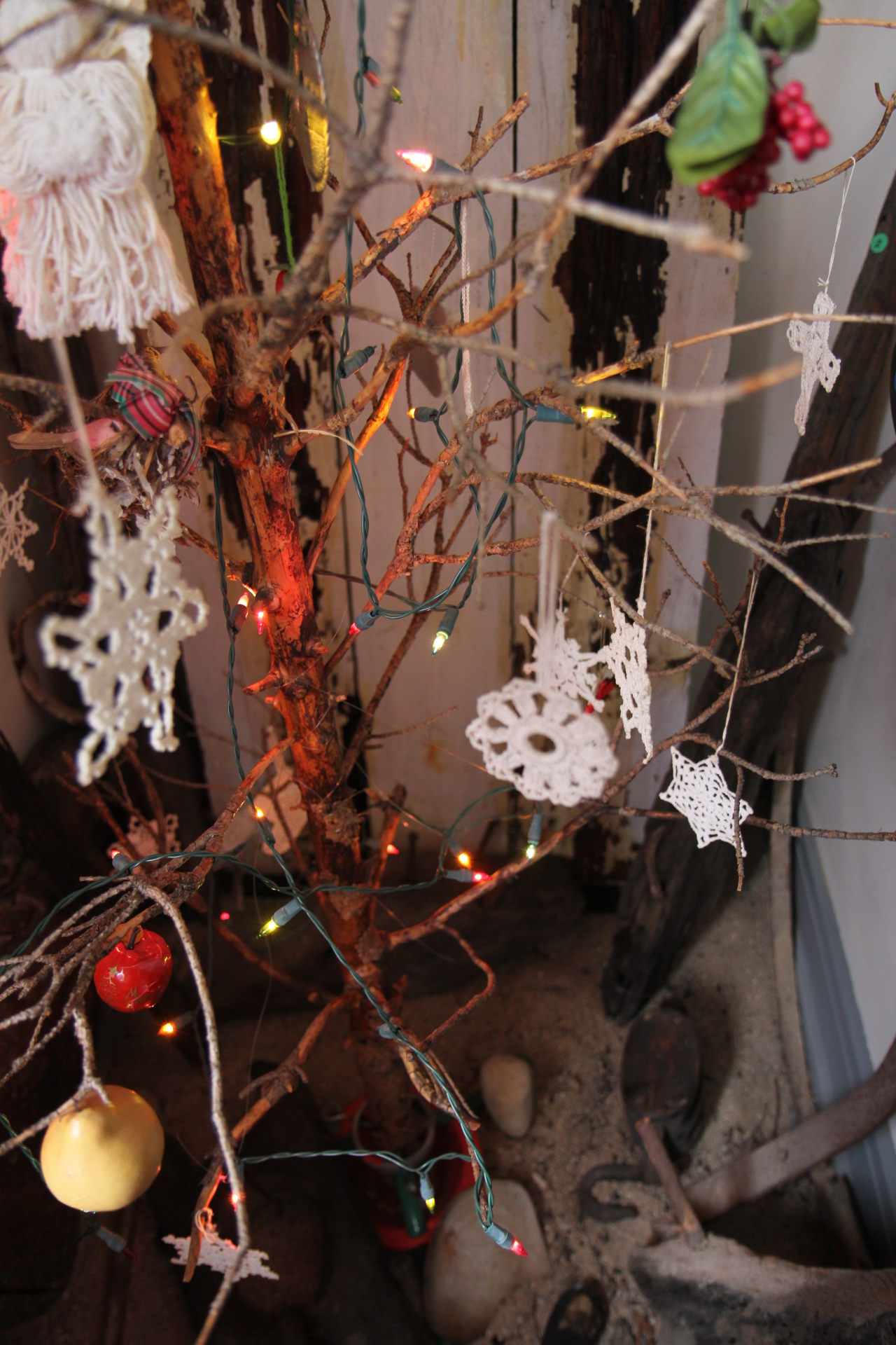 A recovered Christmas tree from the Rouse Simmons ("Christmas Tree Ship") on display at the Port Washington Light Station. The ship sunk in 1912. The tree was later recovered back when salvaging from shipwrecks was legal. The tree is being displayed behind glass and is not accessible.